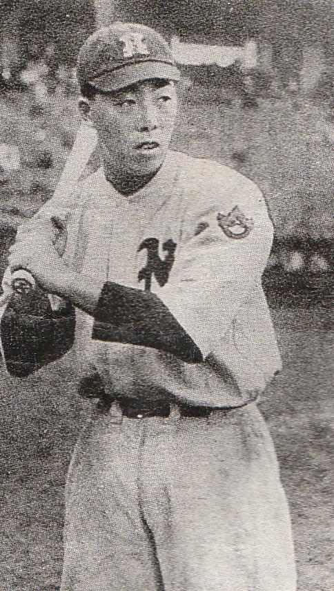 A baseball player from Japan, Kiyoshi Ohsawa